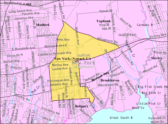 U.S. Census 2000 reference map for North Bellport